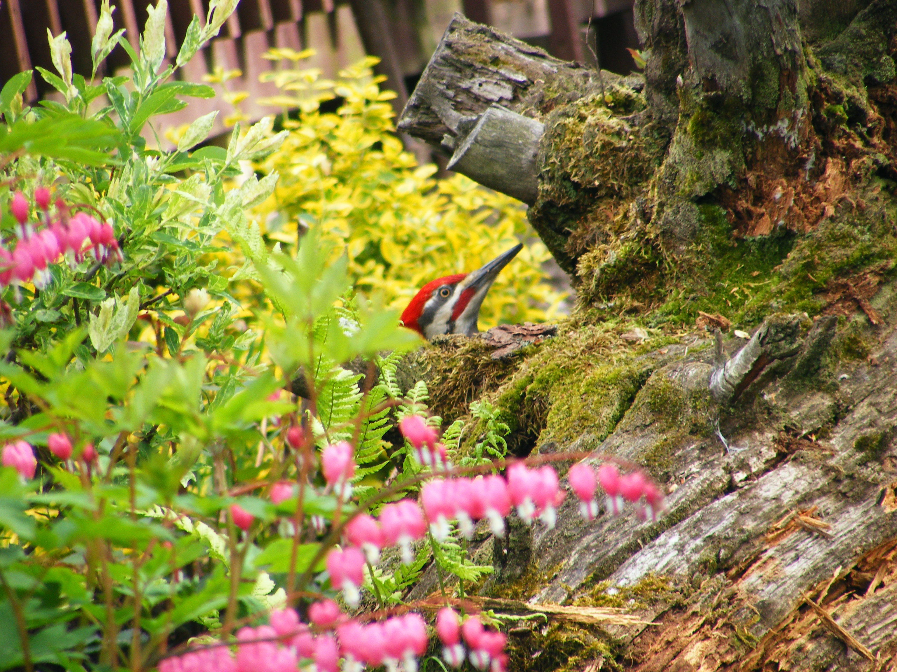 Pileated woodpecker photography taken a few years ago on my mother's lawn in Saint-Alphonse-de-Granby